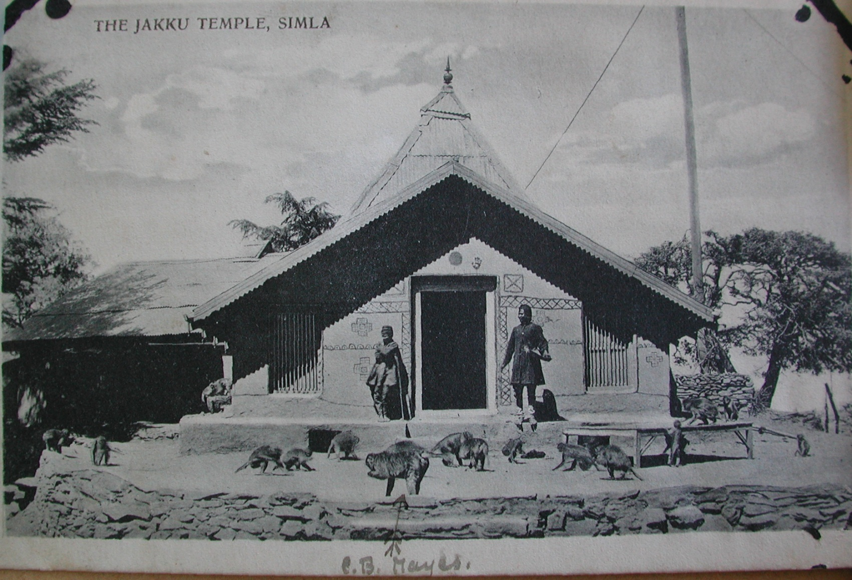 Jakku Temple Simla